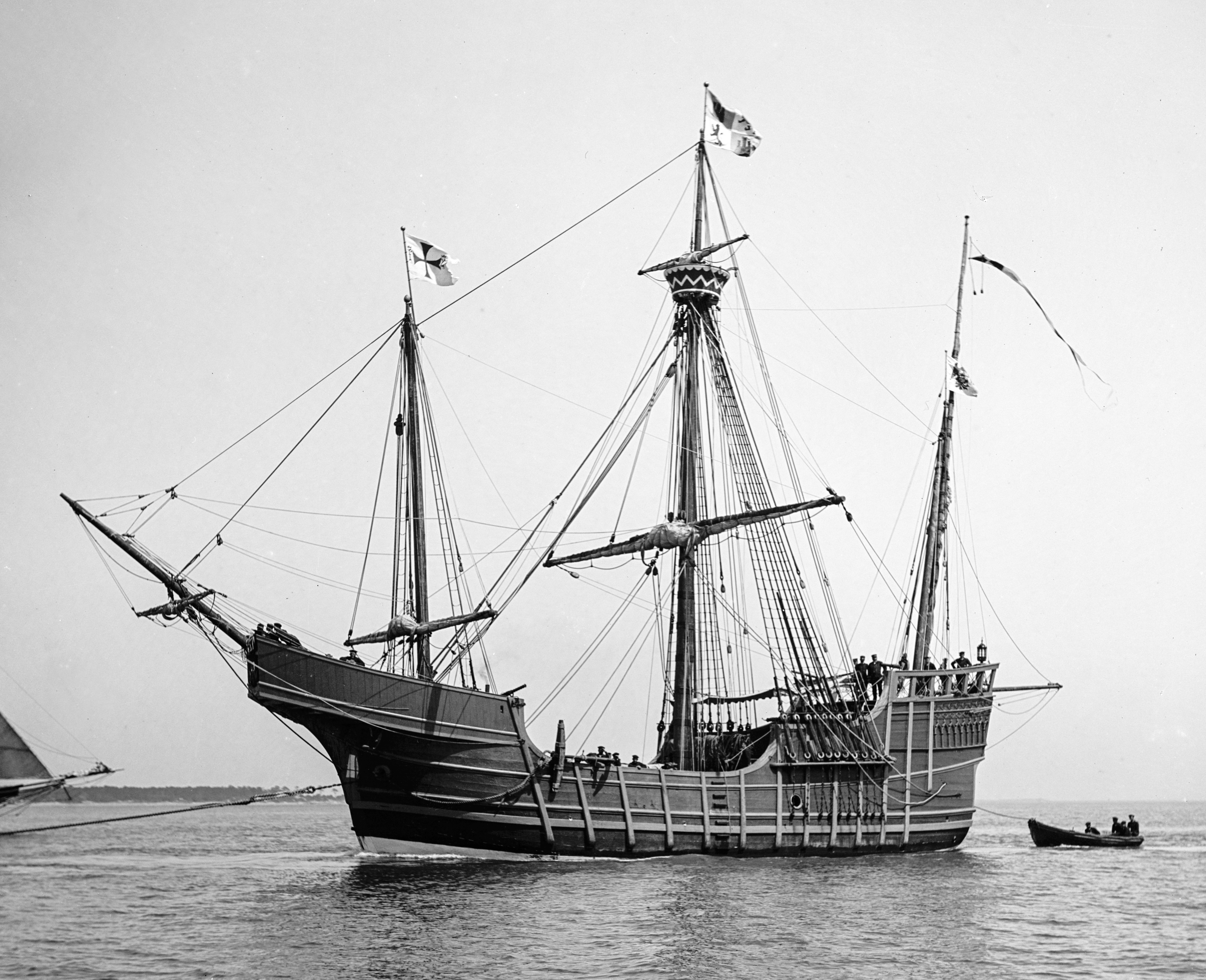 Replica of the Spanish carrack Santa María. Dry plate negative. 8x10 inches.